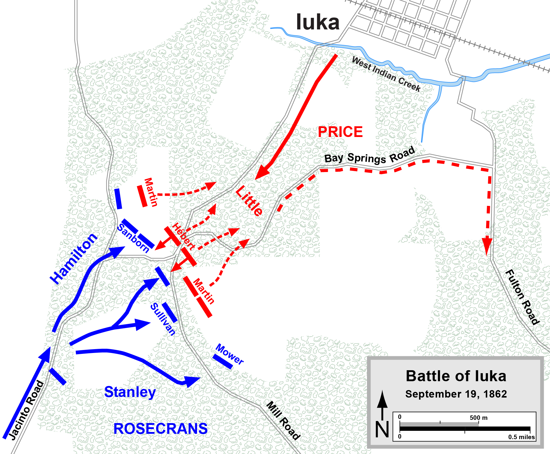 Battle of Iuka of the American Civil War. Drawn by Hal Jespersen in Adobe Illustrator CS5. Graphic source file is available at